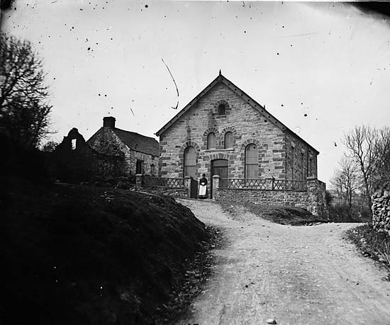 1 negative : glass, wet collodion, b&w ; 10 x 12.5 cm.